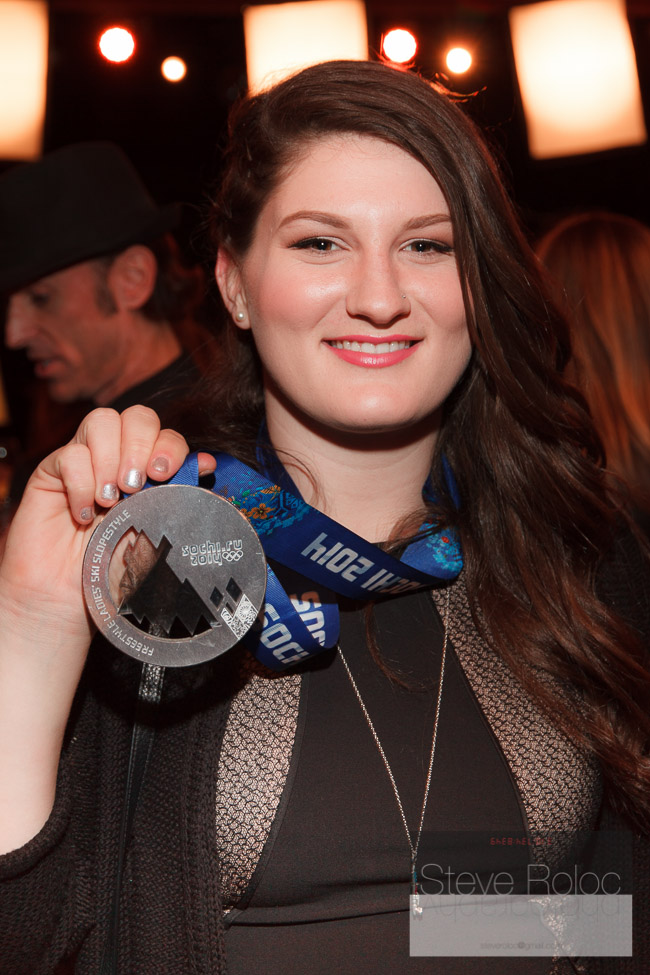 Devin Logan (born 17 February 1993 in Oceanside, New York[1]) is an American freeskier from West Dover, Vermont. Devin grew up in Baldwin and Oceanside New York, where she played youth football for the Baldwin Bombers.[3] She was the winner of a silver medal at the 2012 Winter X Games in the slopestyle contest.[2] Devin also took home a silver medal in the first ever Olympic slopestyle competition held in the 2014 Winter Olympics in Sochi.